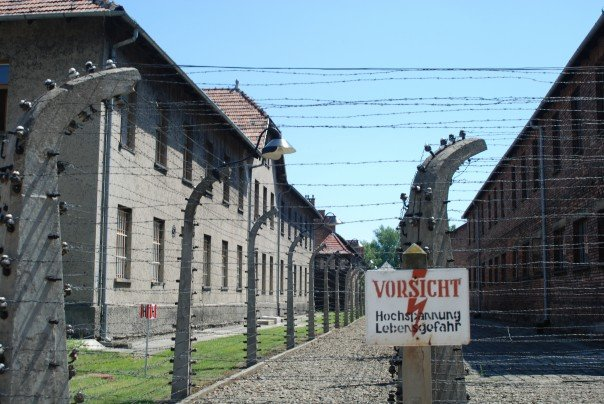 Auschwitz I, German WWII concentration camp in occupied Poland